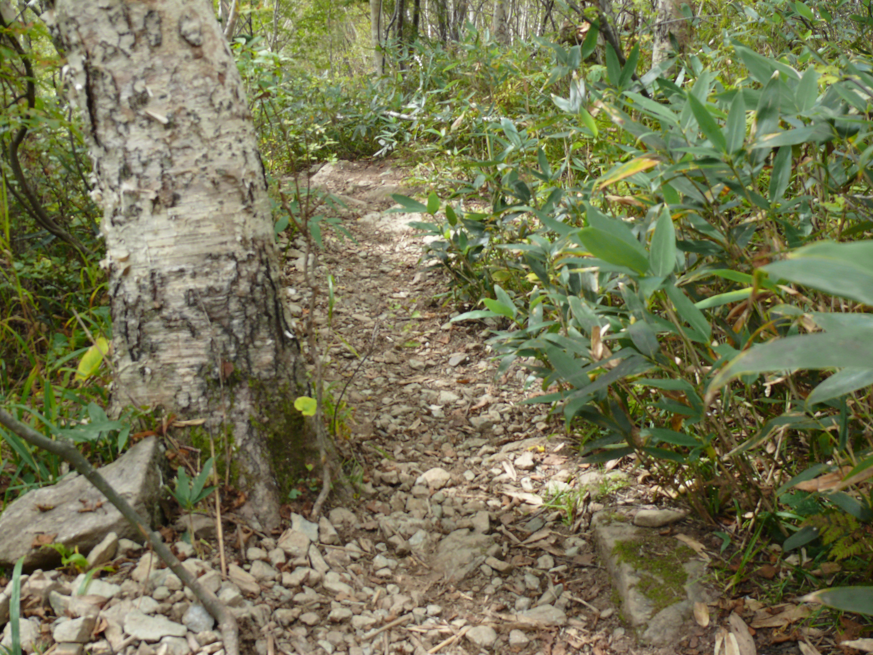 Sasa kurilensis — Kurile bamboo. In and endemic to Sakhalin Oblast, the Far Eastern Federal District of Russia. The most northern-growing bamboo in the world.